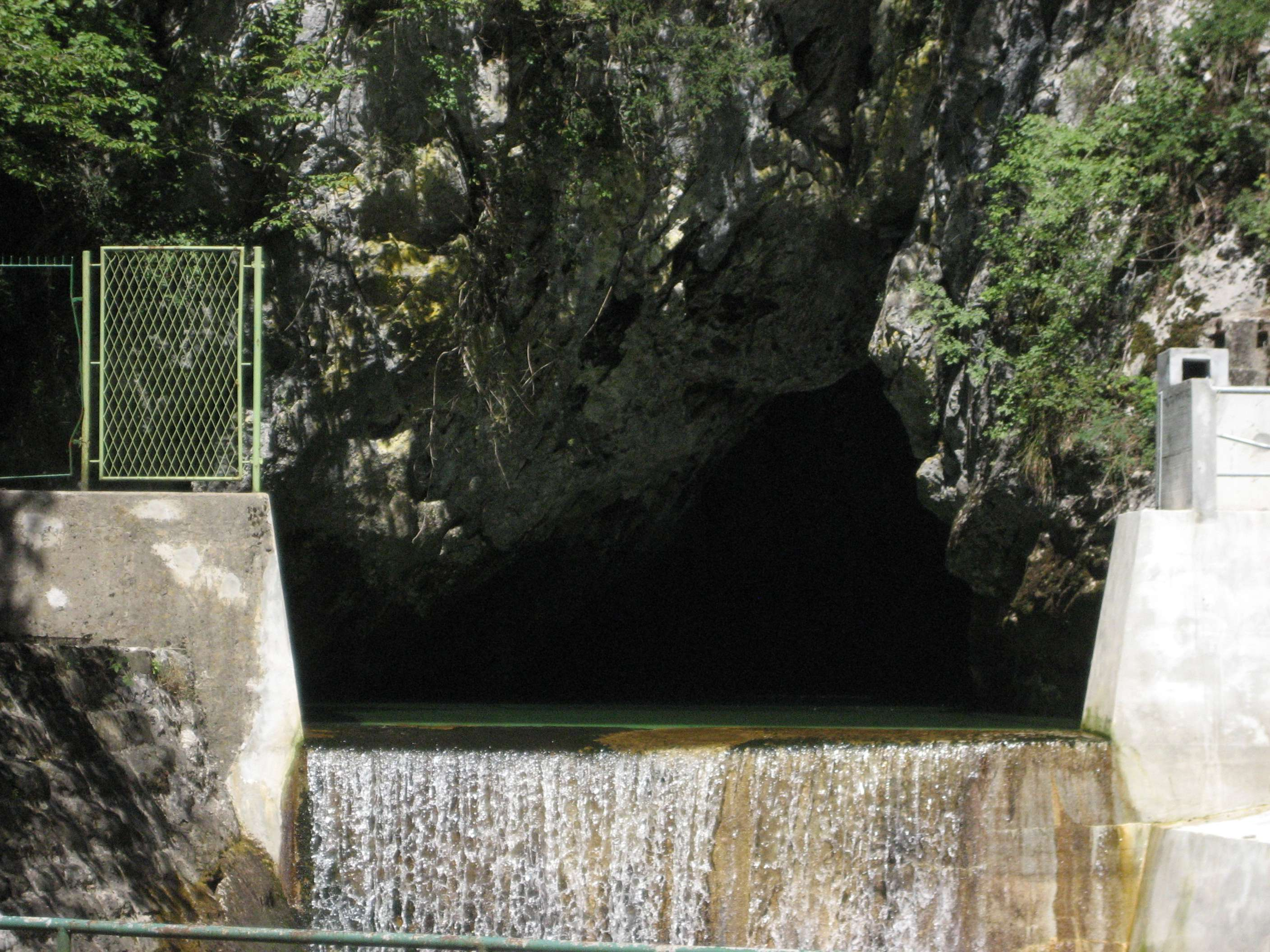 Source of the Rječina